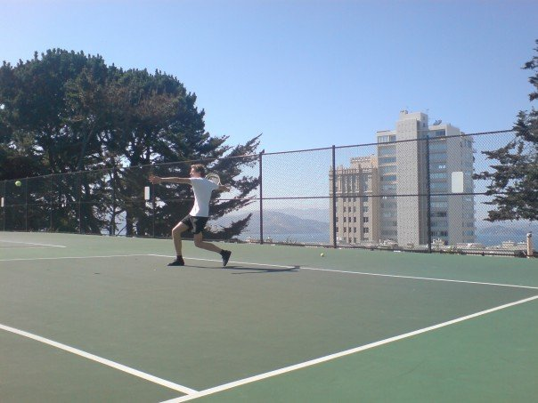 DJ Måns Sjöstrand from the Dogs from Redding plays tennis at Alice Marble Tennis courts.